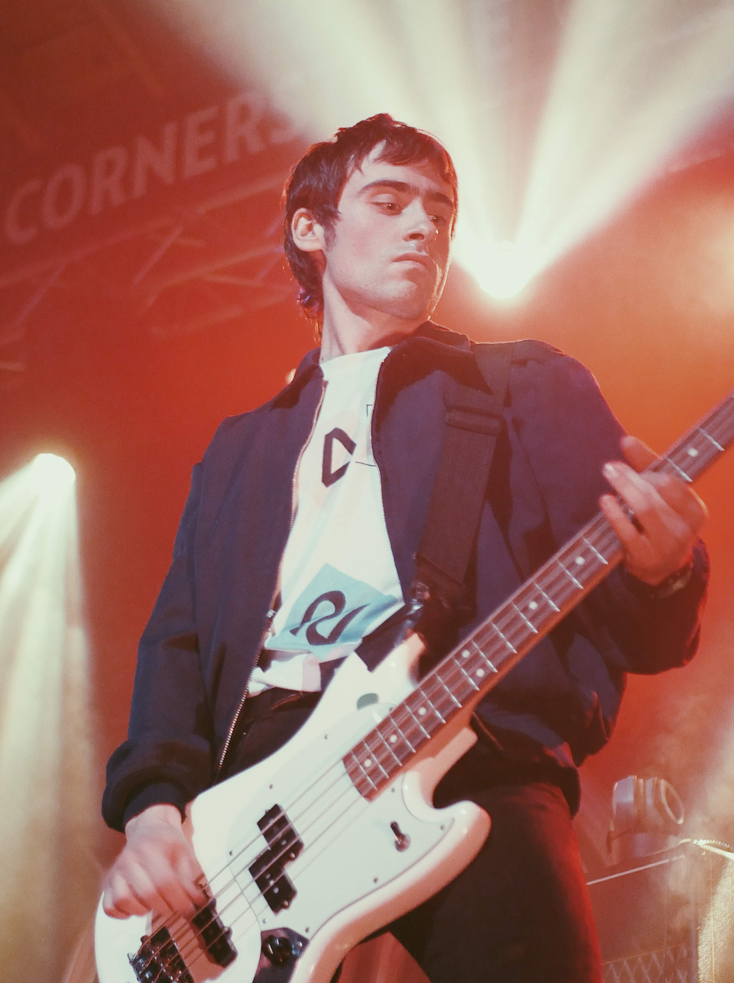 Photograph by Josh Jaffe (@josh_jaffe)